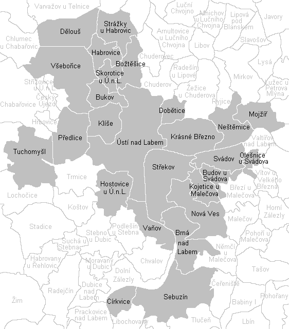 Cadastral map of Ústí nad Labem